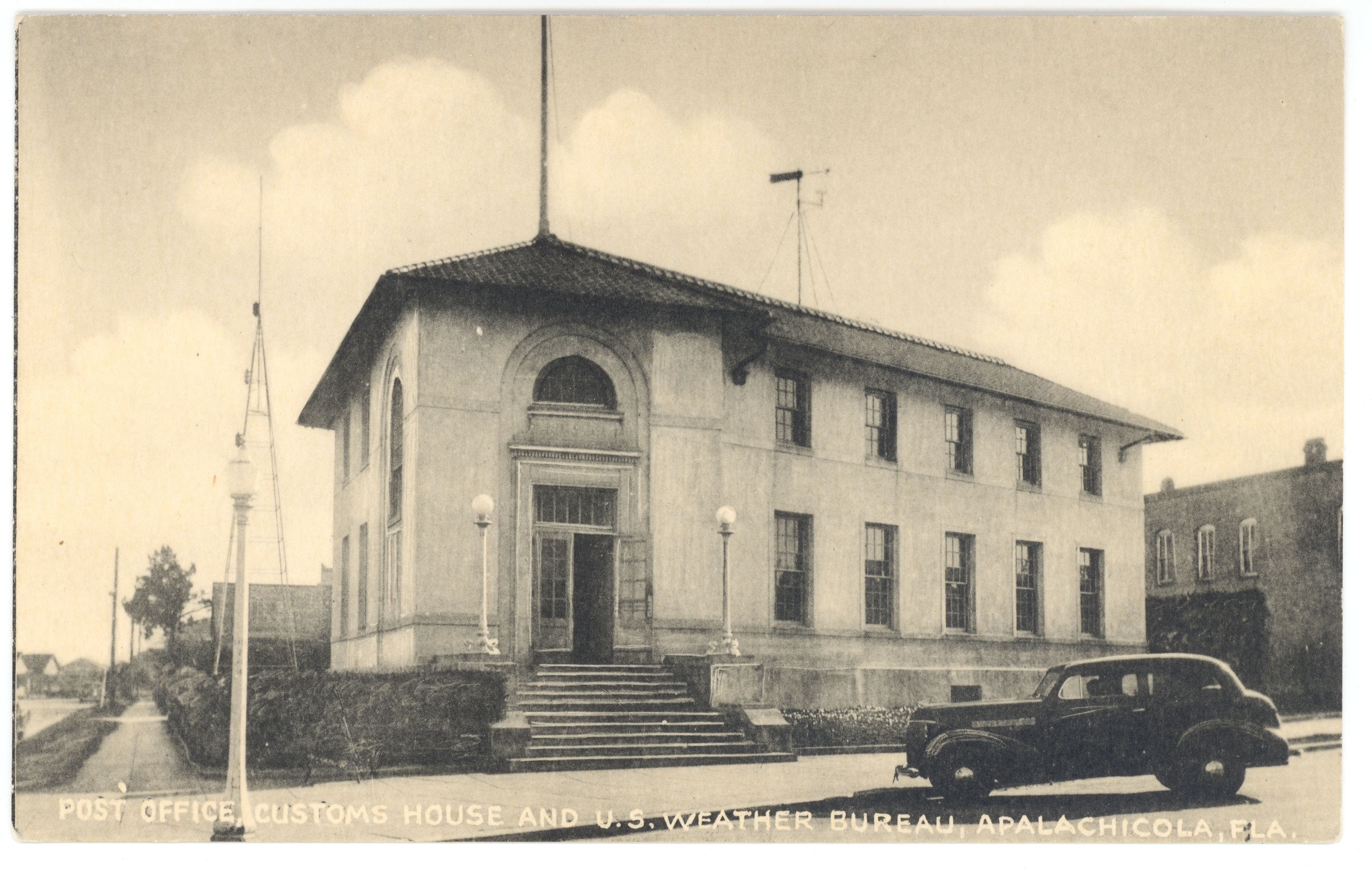 Postcard of the Post Office, Customs Office, and U.S. Weather Bureau Building at Apalachicola, Florida.Apalachicola Historic District